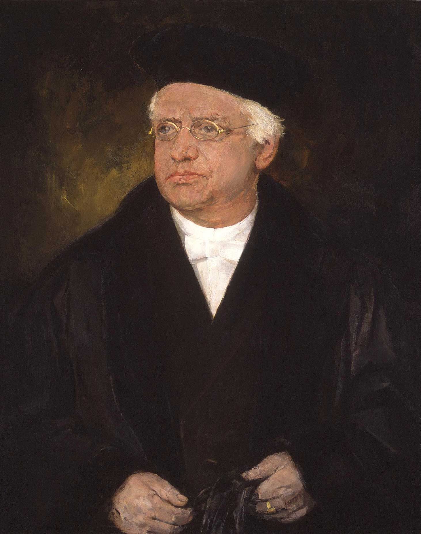 Willem Frederik Reinier Suringar (1832-1898) Dutch botanist